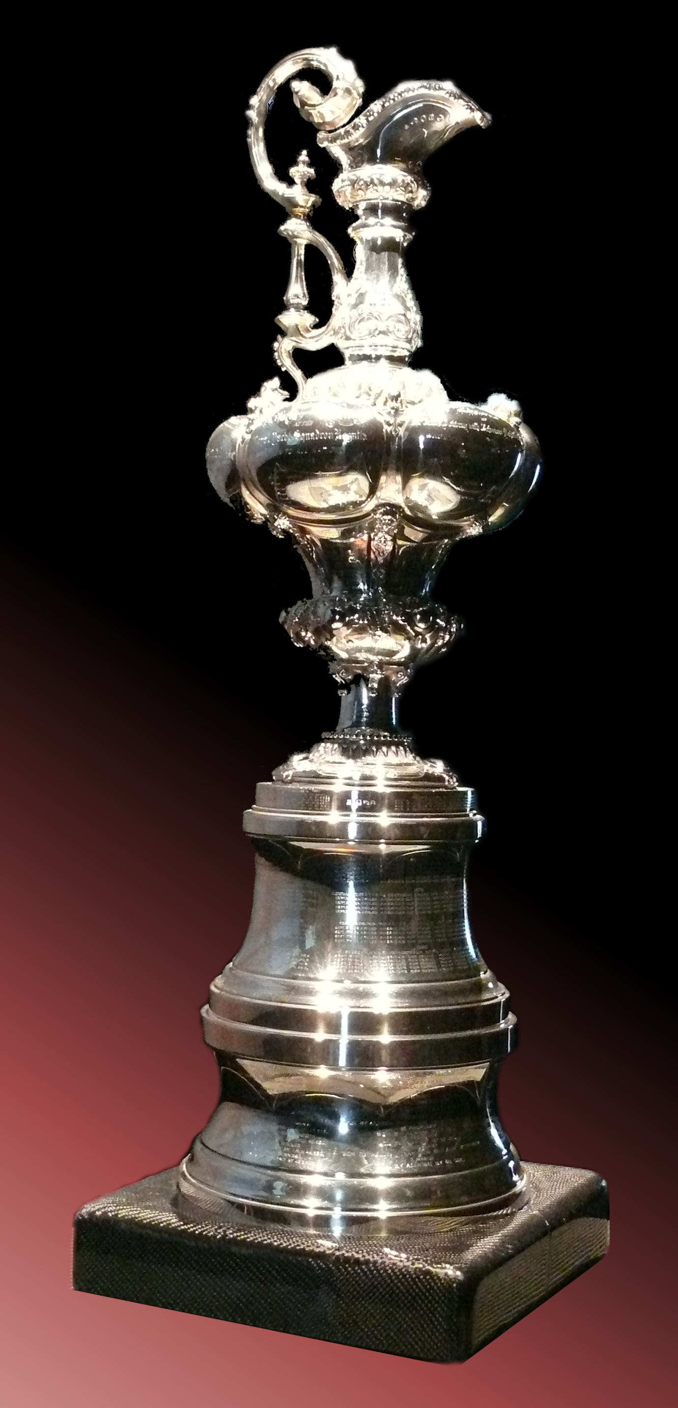 33rd America's Cup, Valencia, Spain